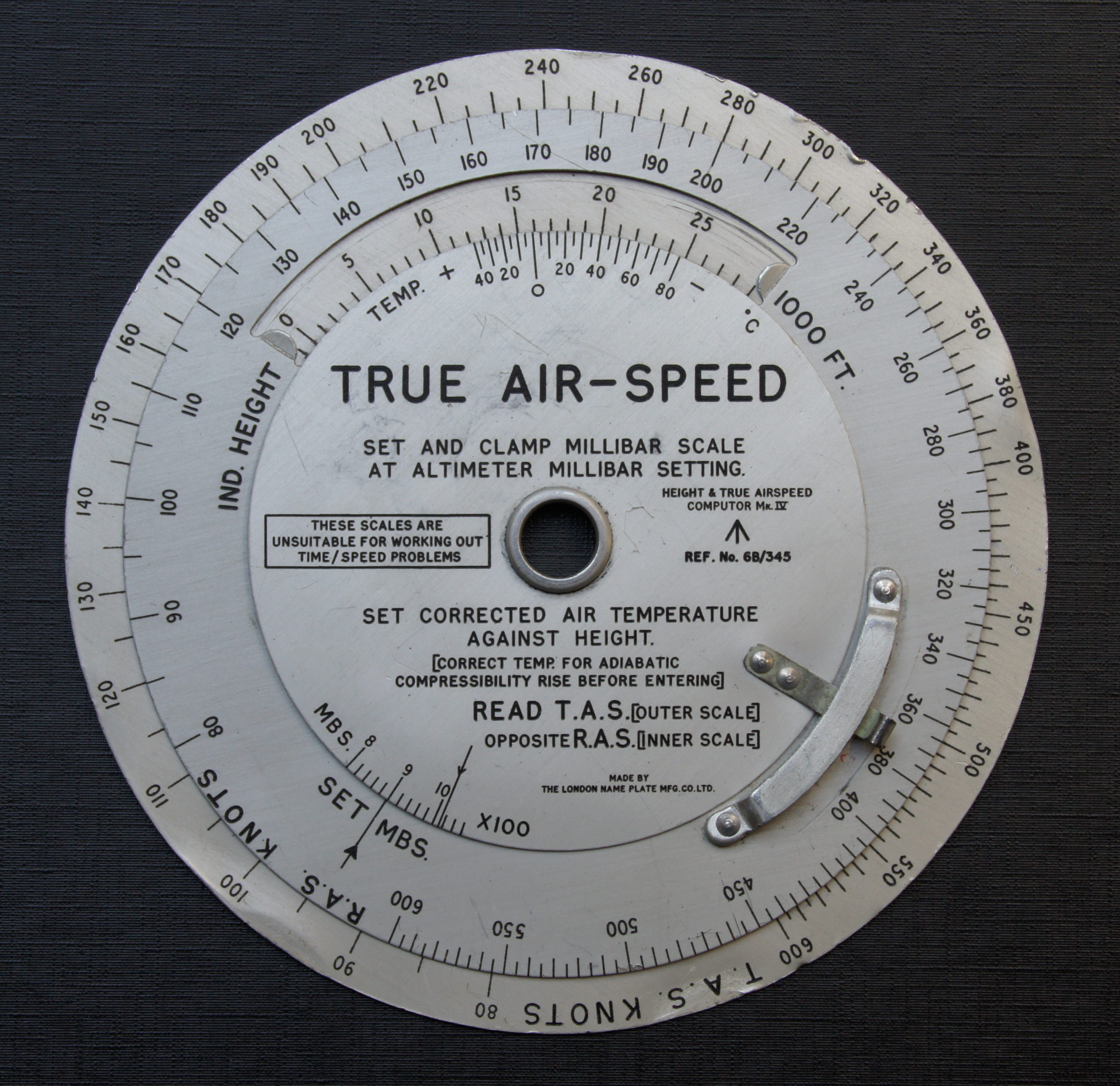 Frontside of the 6B/345 Air Speed Calculator made by The London Name Plate MFG. CO. LTD. This tool was used during the 1960ies and 1970ies by flight crews of the German Air Force.